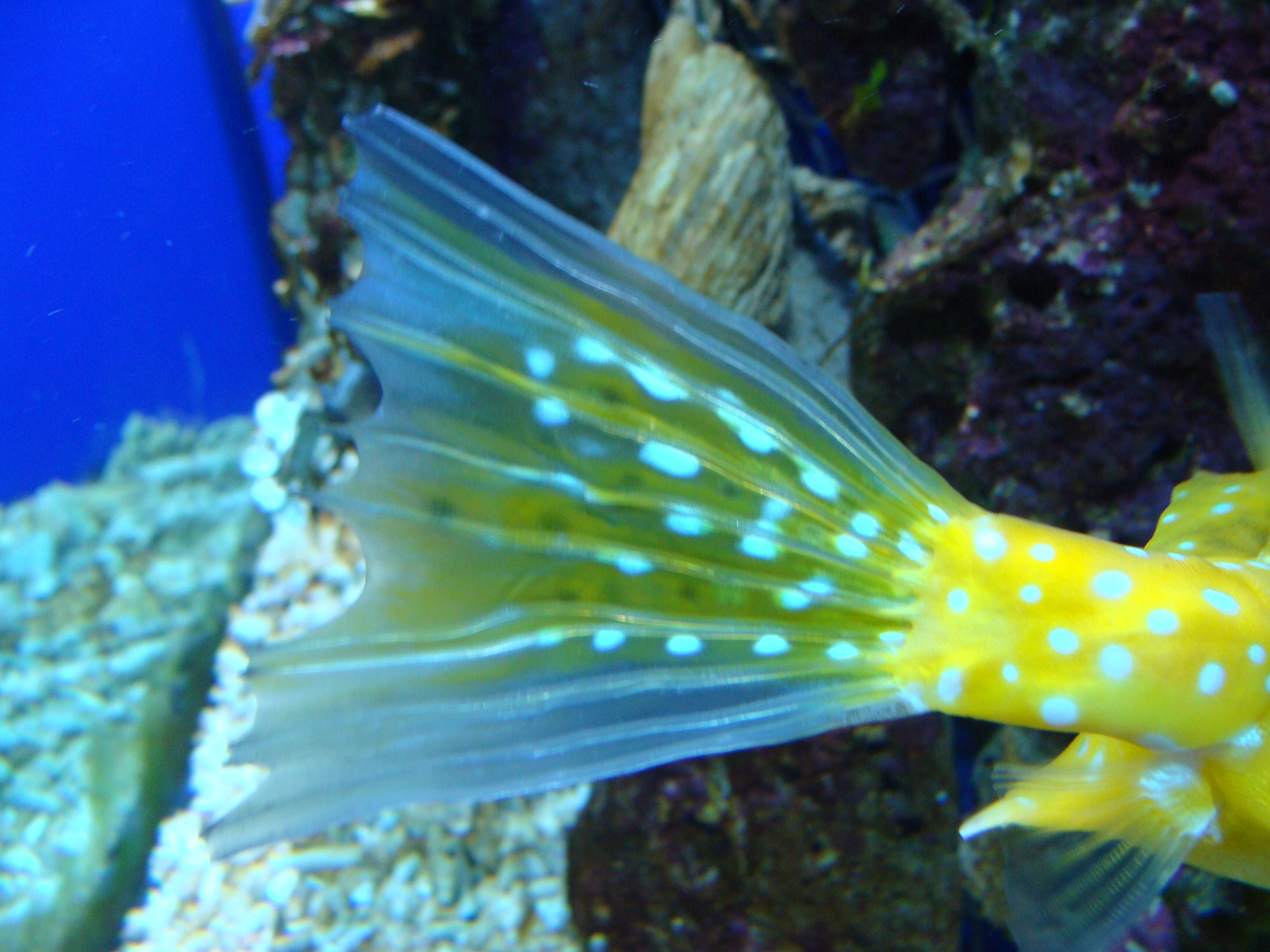 Tail of Lactoria cornuta (Longhorn cowfish) in Sala Humboldt of Aquarium Finisterrae (House of the Fishes), in Corunna, Galicia, Spain.